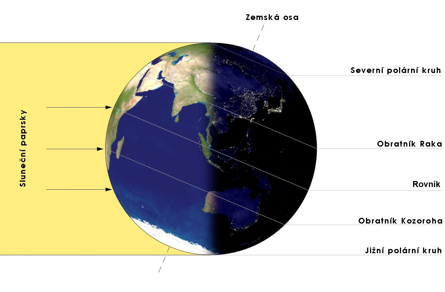 Illumination of Earth by Sun on the day of winter solstice on northern hemisphere. A view to eastern-hemisphere showing noon in Central European time zone (ignoring DST) on the day of winter solstice (on northern hemisphere - this is summer solstice on southern hemisphere).